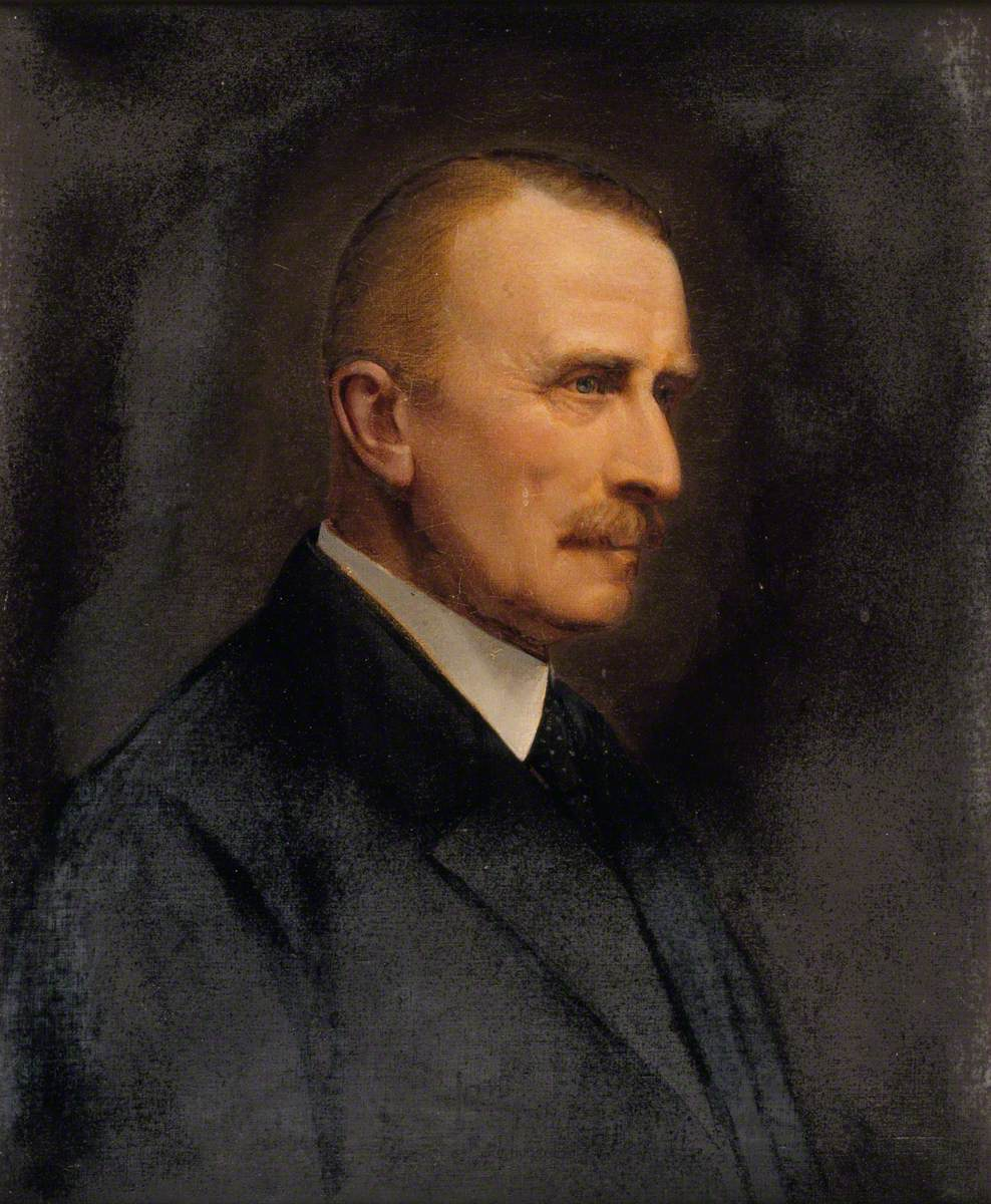 A painting from the Framed Works of Art collection at the National Library of wales.